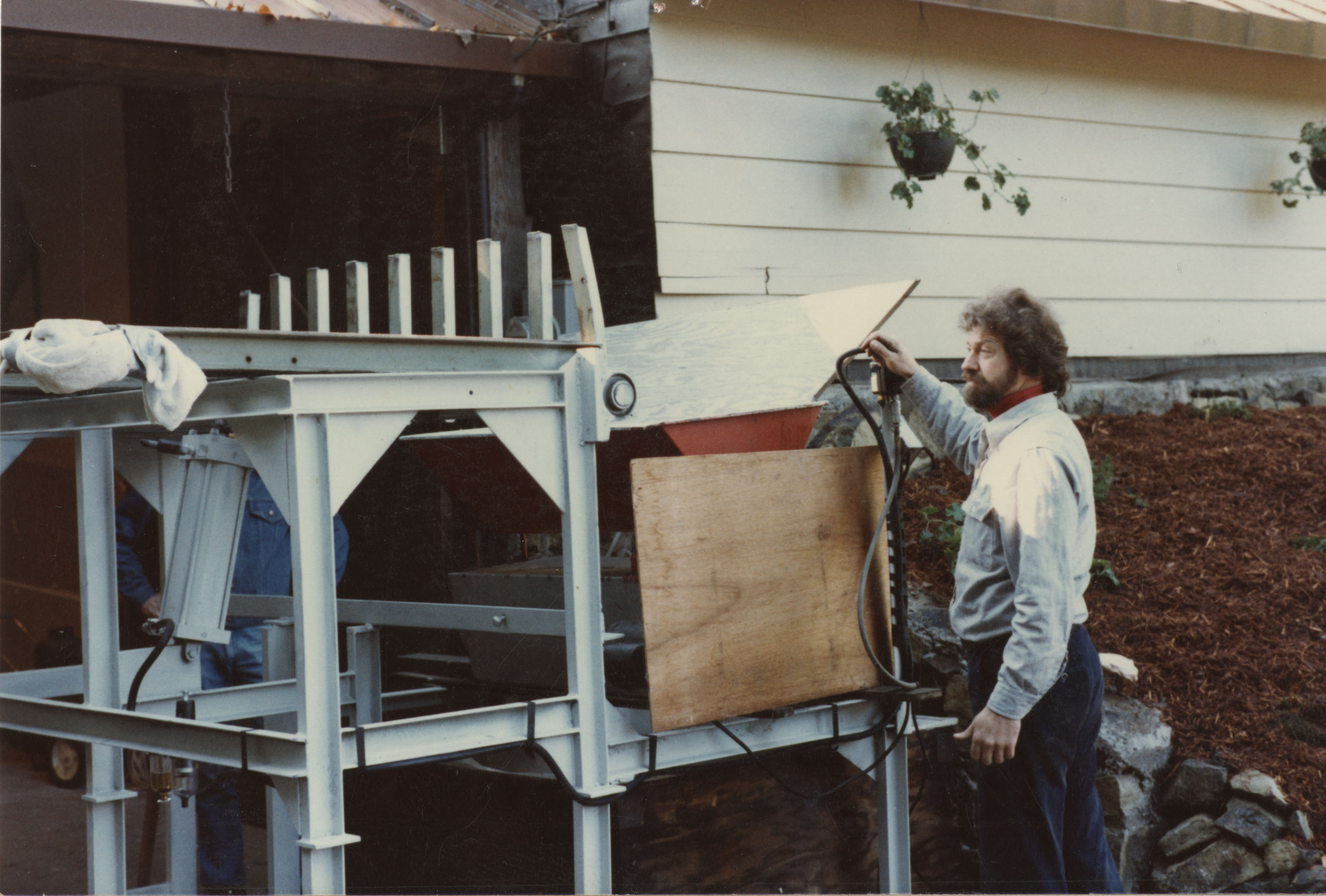 Dick Ponzi stands with a self-constructed piece of equipment used in the wine making process.